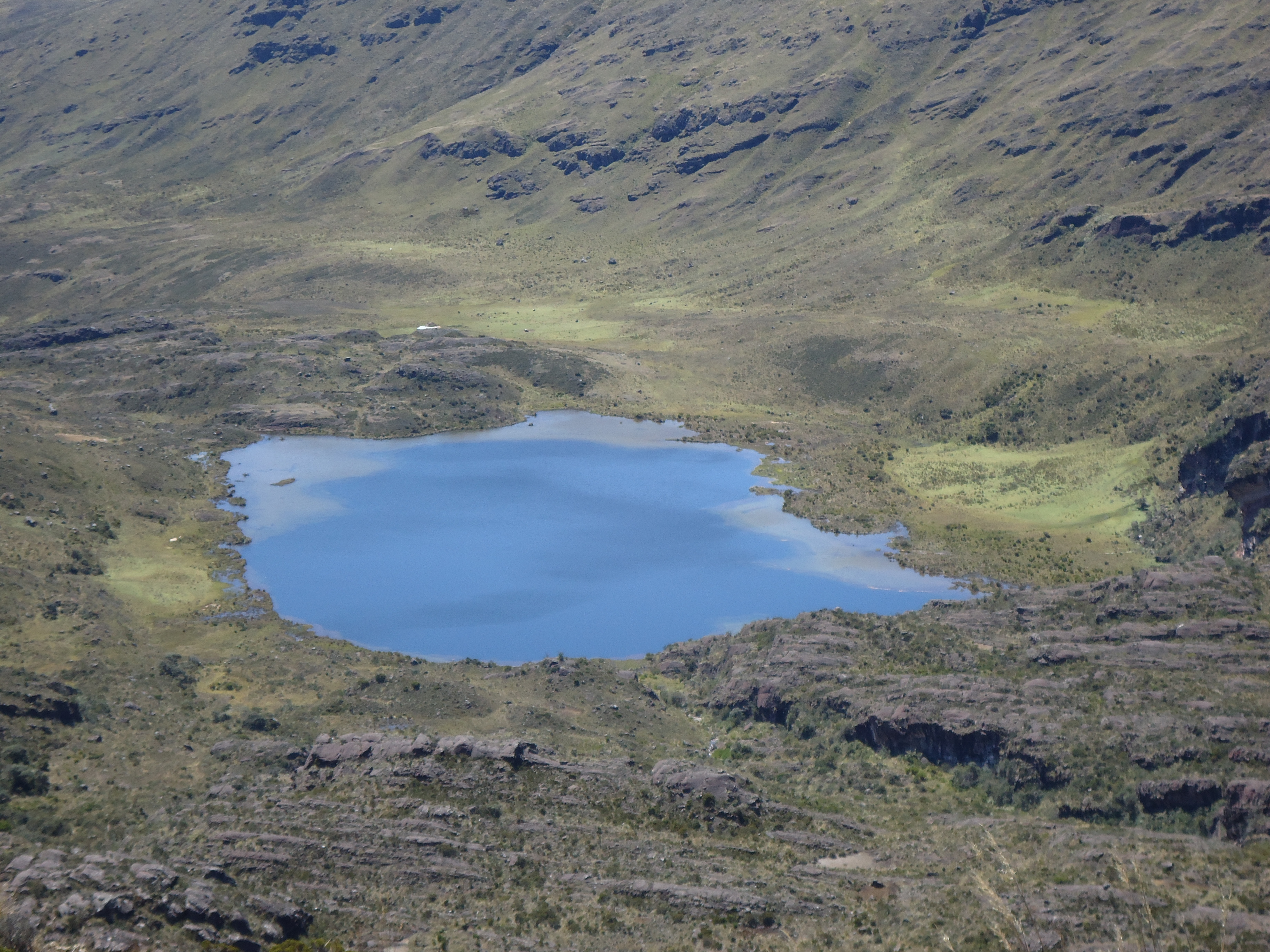 Laguna Casadero, Municipio de Arboledas, Páramo de Santurbán